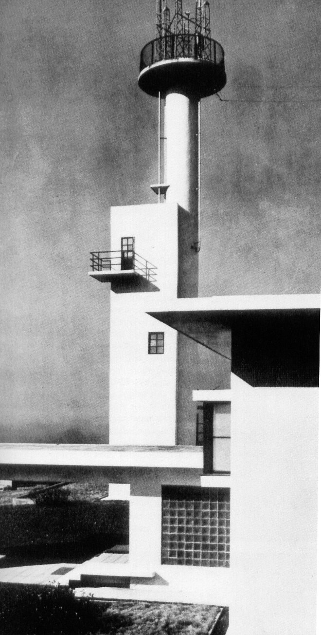 Horiguchi Sutemi: Oshima Weather Station, 1938, Shizuoka prefecture